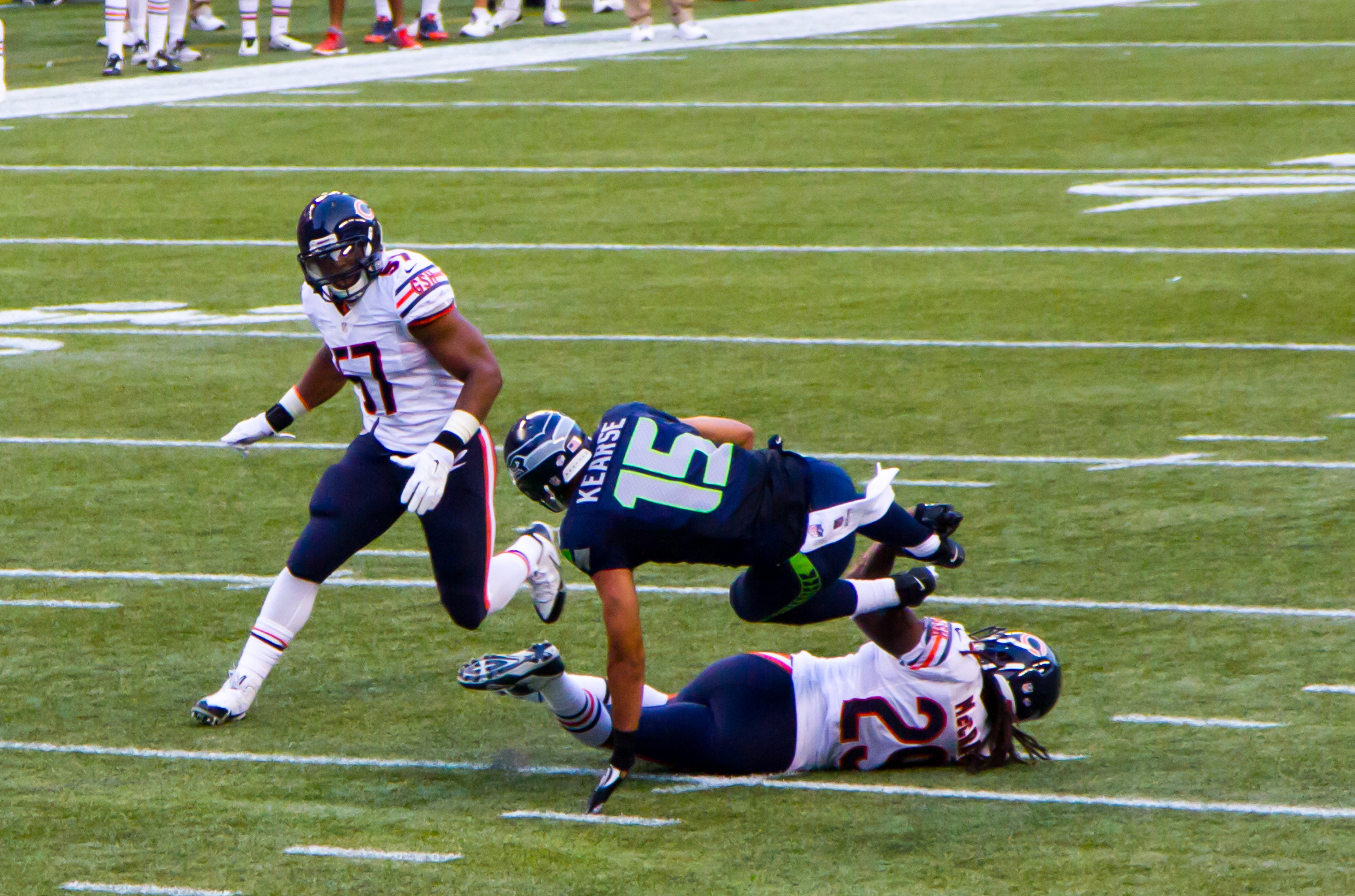 Jon Bostic (57) and Jermaine Kearse (15) in 2014 preseason